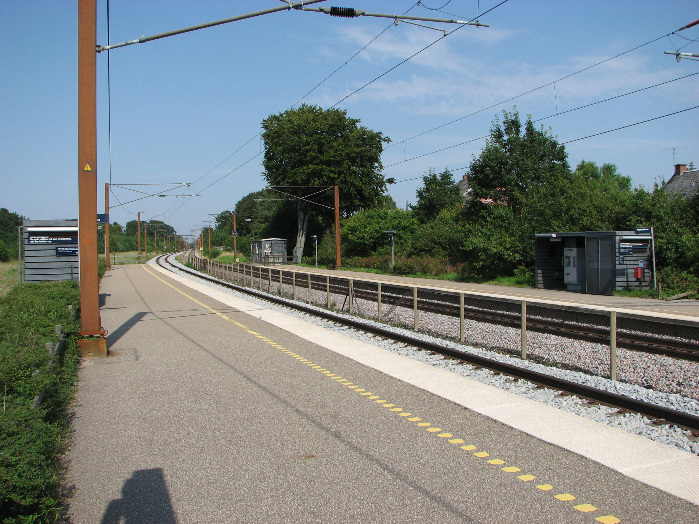 Holmstrup railroad station